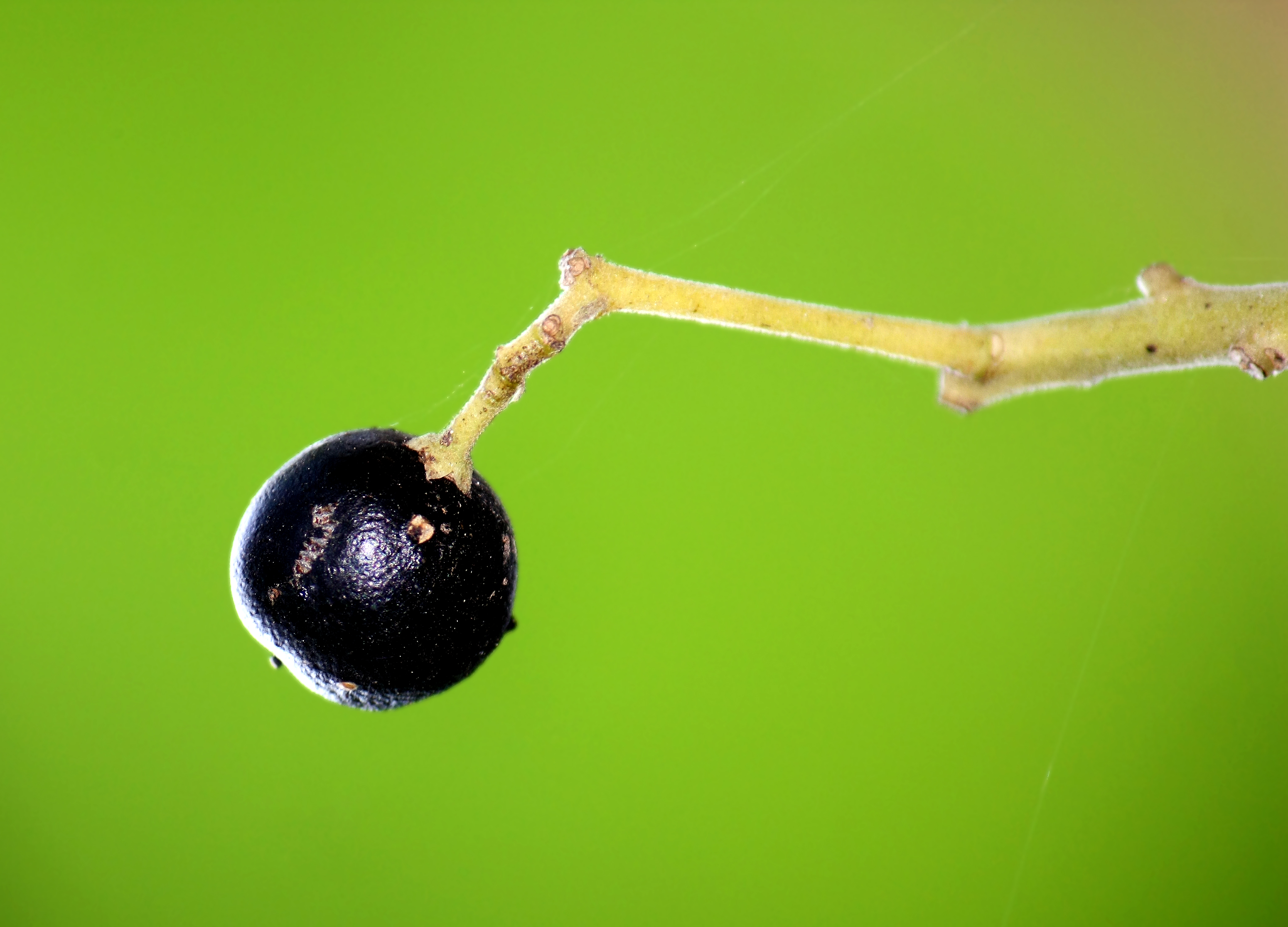 Fully ripe fruit of curry leaf tree (Murraya koenigii)